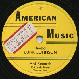 Label of 1946 "American Music" record of "Ja-Da" performed by Bunk Johnson. Also on the record (not credited on the label) are Don Ewell, piano, and Alphonse Steele, drums.